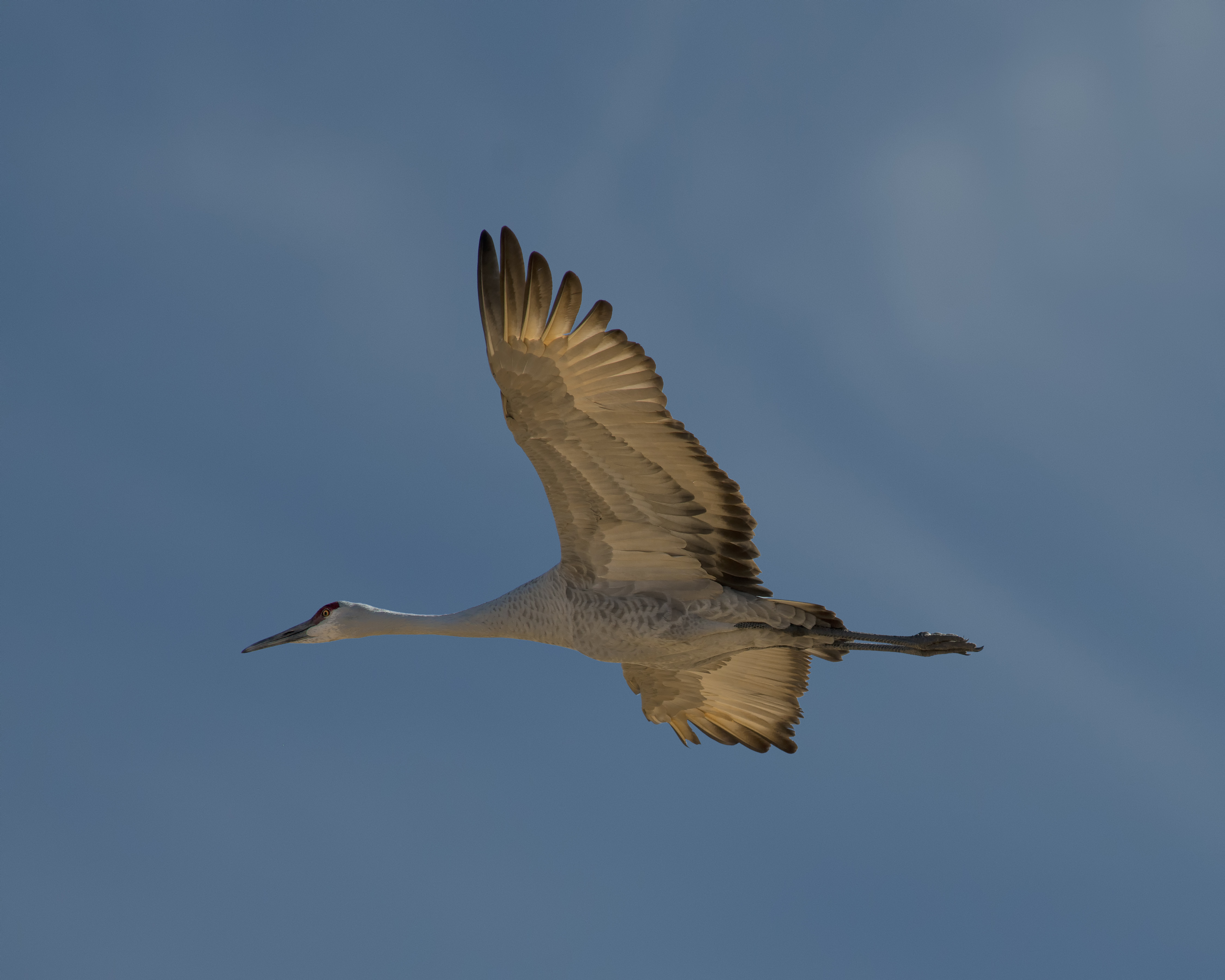 Sandhill Crane Grus canadensis, Ladd Gordon Waterfowl Complex, Bernardo, New Mexico, USA.